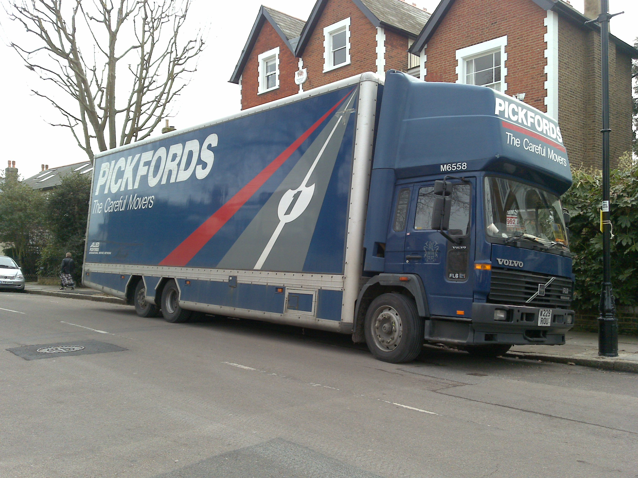 Removal truck in Ealing, London